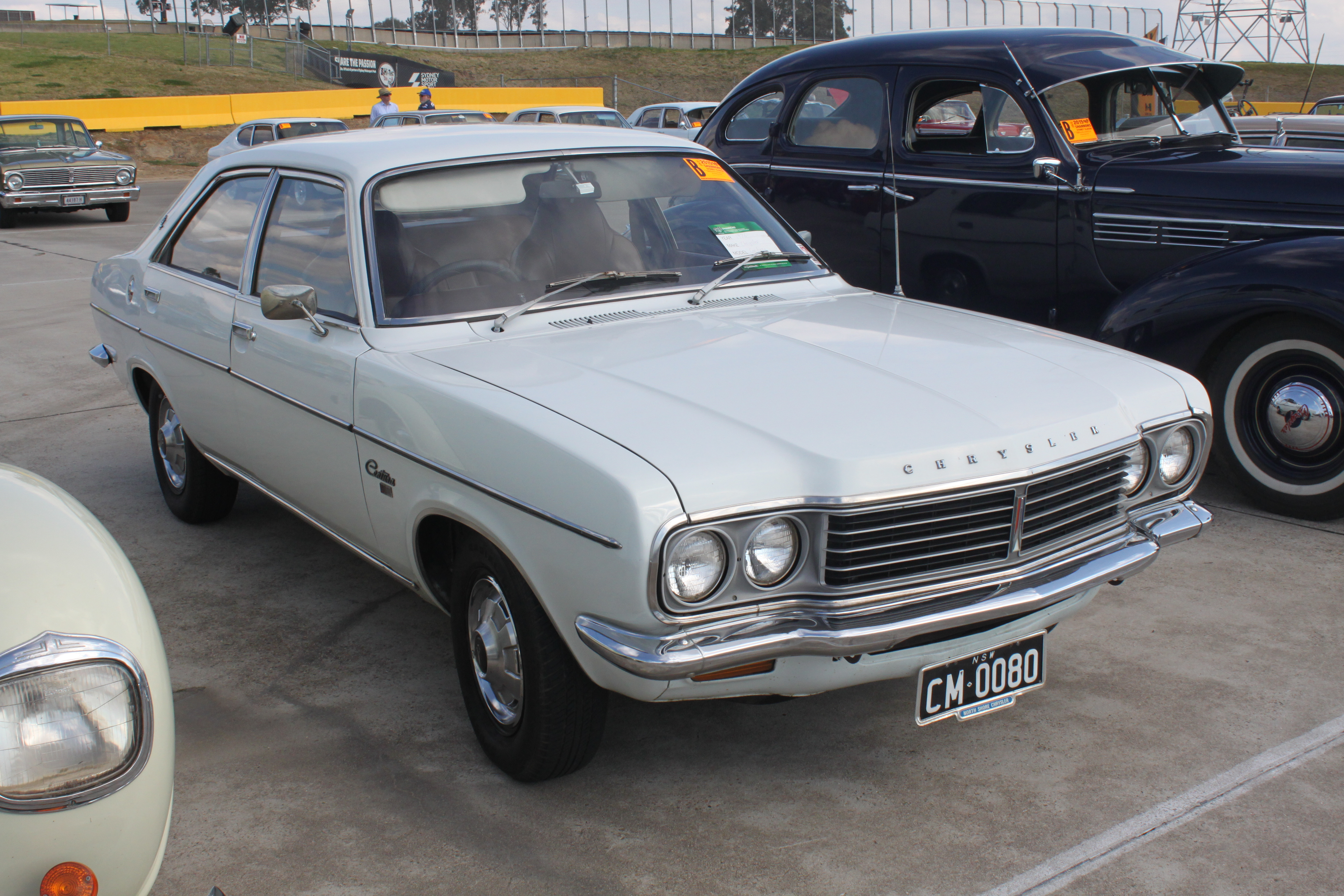 Shannon's Classic, Eastern Creek, NSW August 2015